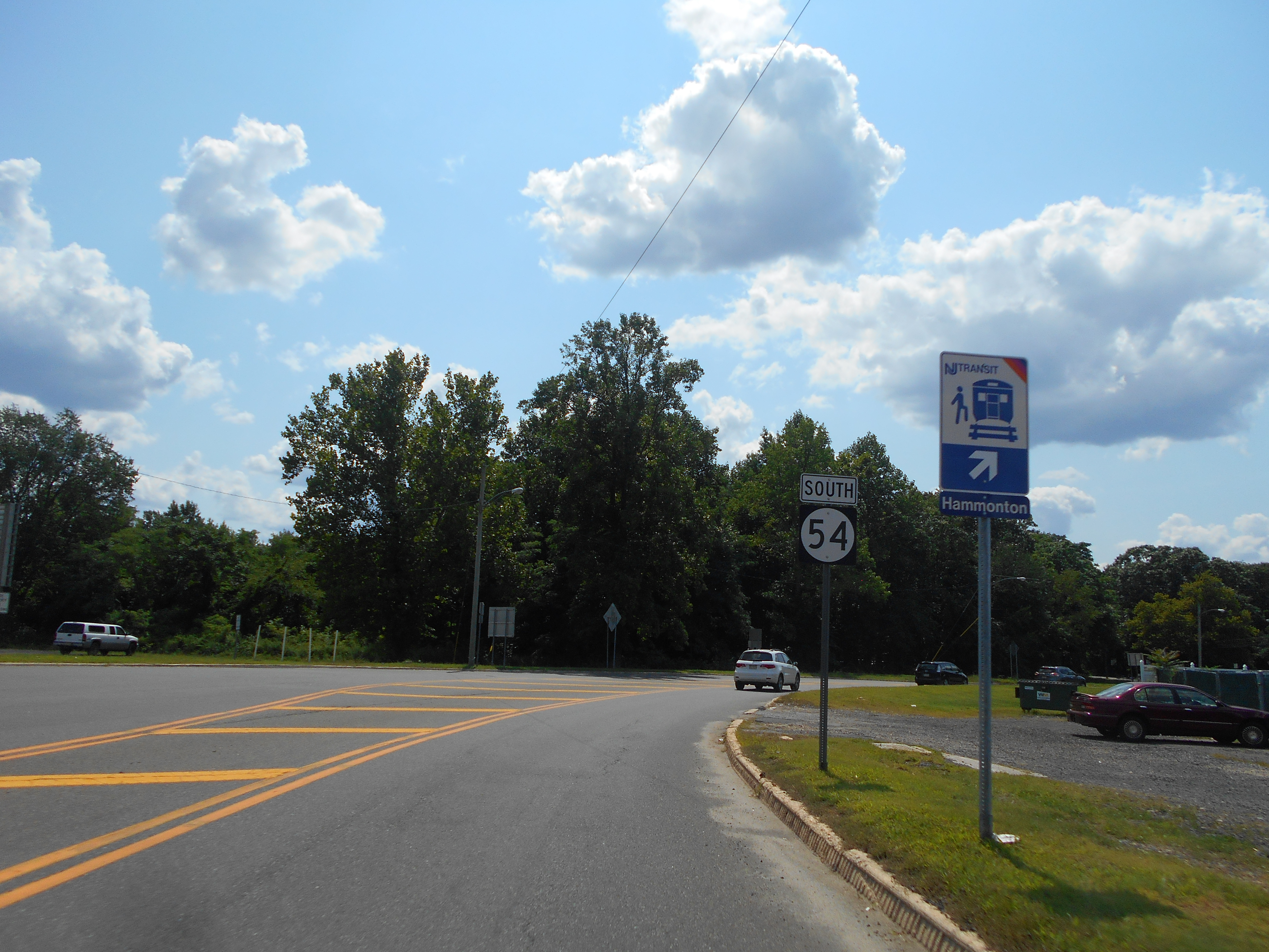 Route 54 southbound in Hammonton, New Jersey.